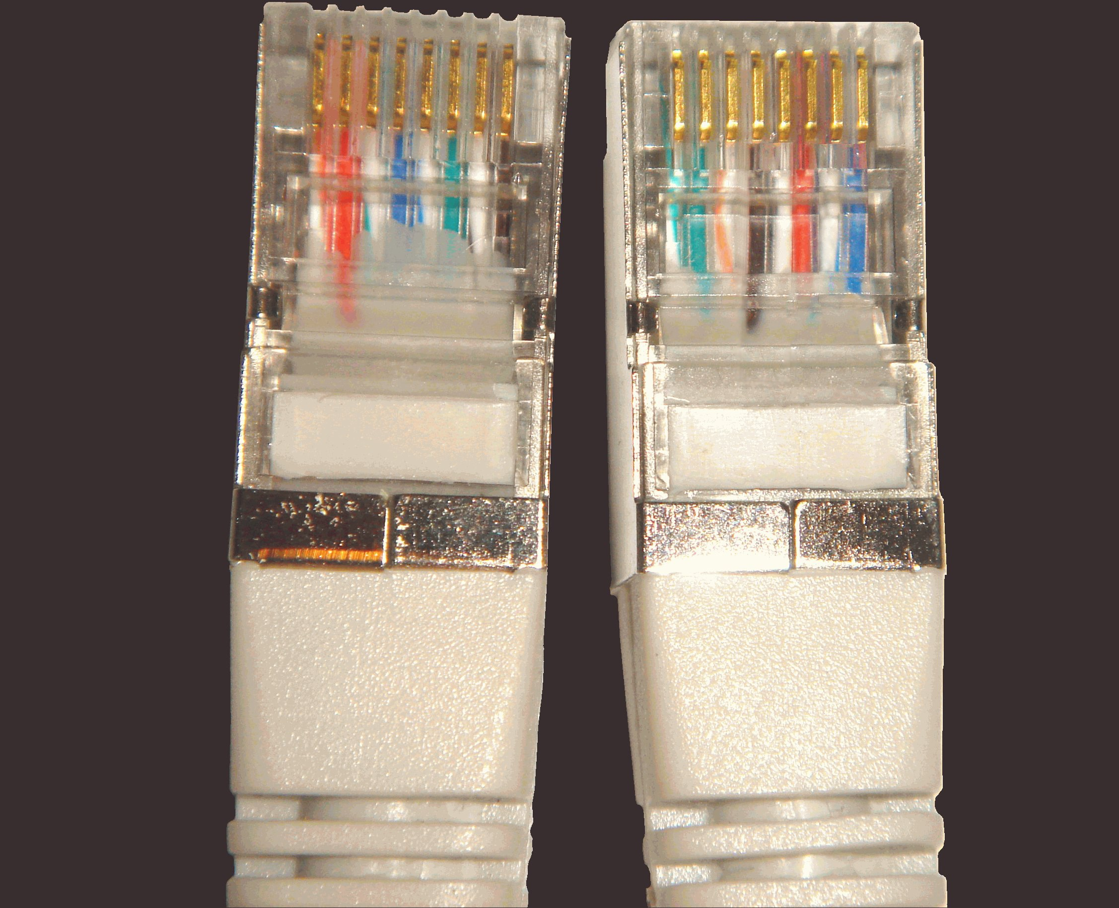 Comparison of connector wiring at both ends of an Ethernet crossover cable. Note wire color sequence in each connector - suitable for use with 100BASE-T4 (gigabit)